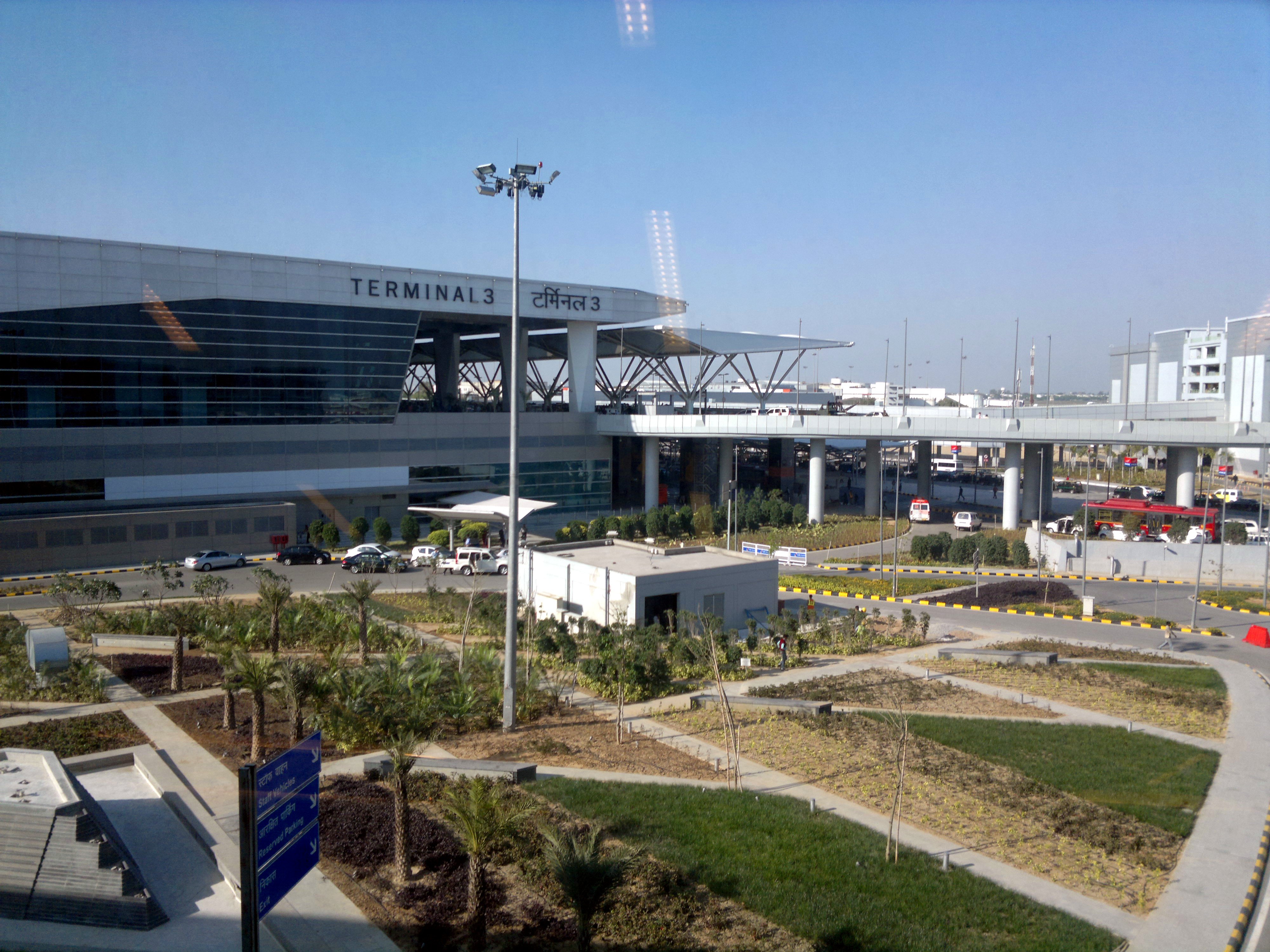 Indira Gandhi International Airport (Hindi: इन्दिरा गाँधी अंतर्राष्ट्रीय हवाई अड्डा) (IATA: DEL, ICAO: VIDP) is the primary airport of the National Capital Region of Delhi, situated in West Delhi, 16 km (10 mi) southwest of New Delhi's city center. Named after Indira Gandhi, the former Prime Minister of India, it is the busiest airport in India in terms of daily flight traffic and second busiest in term of passenger traffic in India after Mumbai's Chhatrapati Shivaji International Airport. Terminal-3